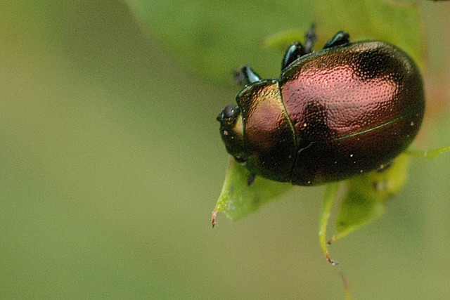 Picture taken in Commanster, Belgian High Ardennes . Species: Chrysolina varians